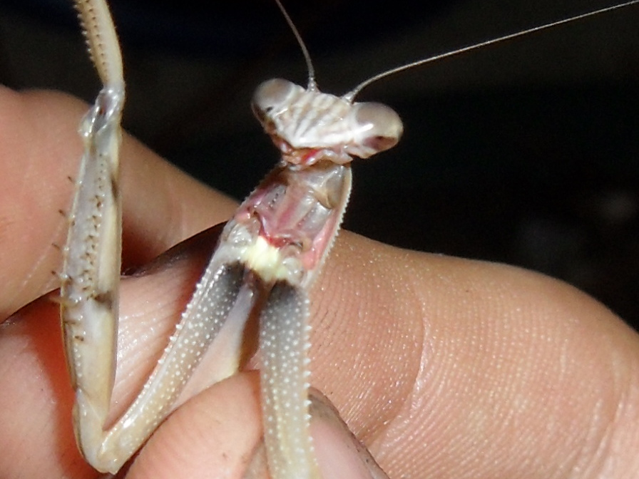 Sub-adult female Tenodera sinensis yellow spot. Tenodera angustipennis have an orange dot there so that is one way of telling Tenodera sinensis and Tenodera angustipennis apart.